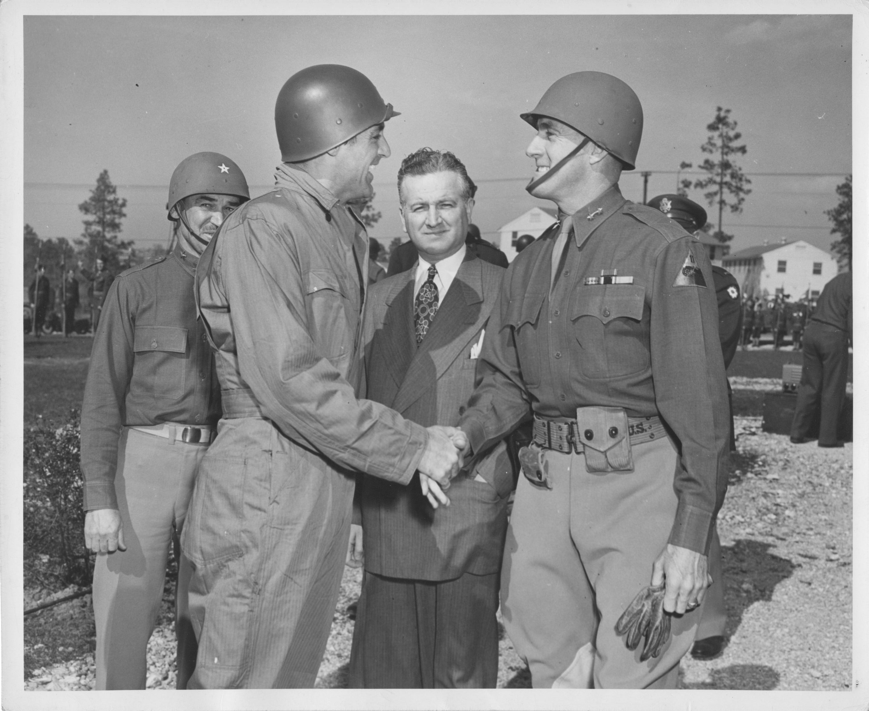 Actor Cary Grant and Maj. Gen. Edward H. Brooks shaking hands during WWII publicity tour.